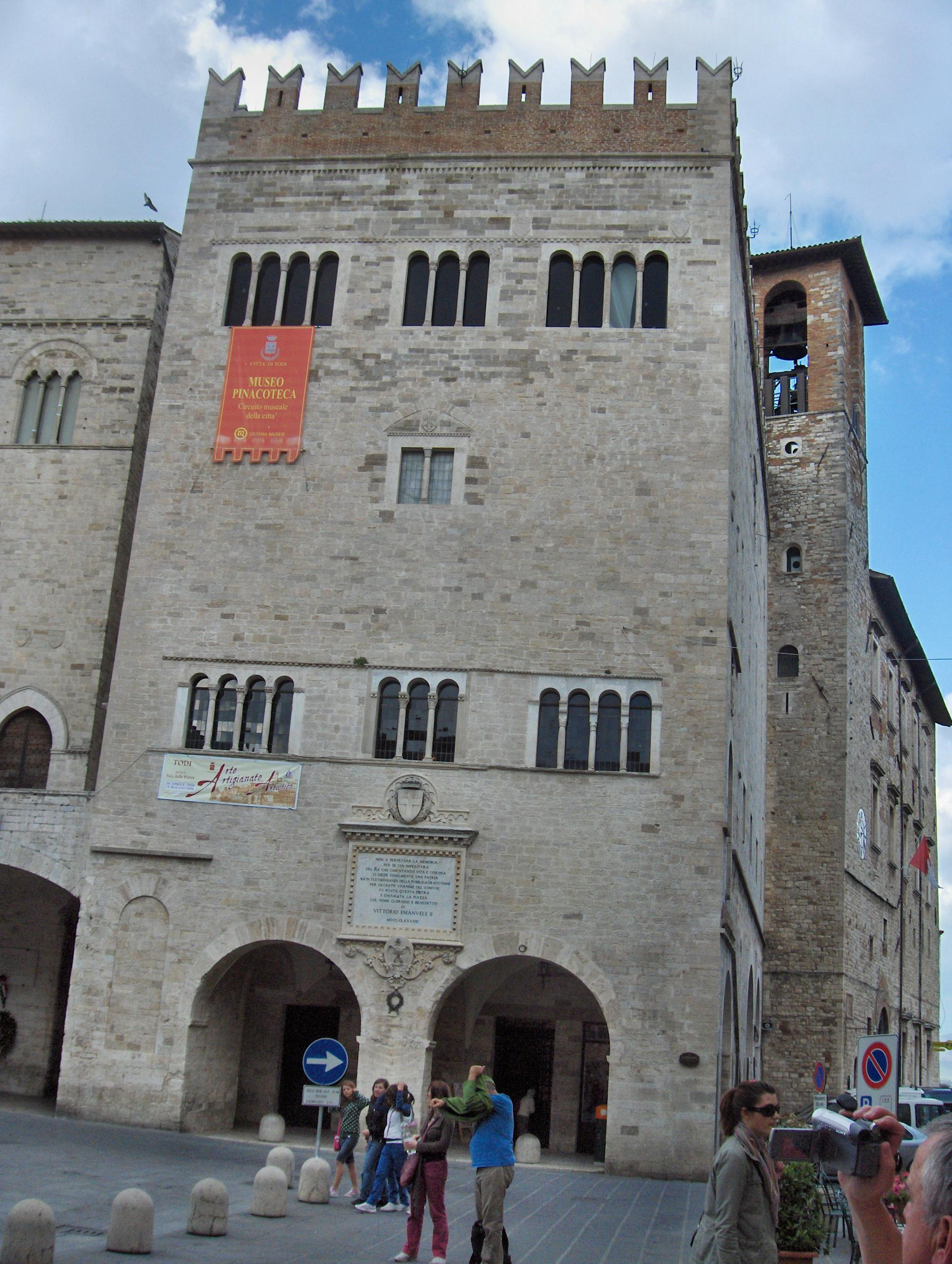 Palazzo del Popolo (Town Hall), Todi, Italy